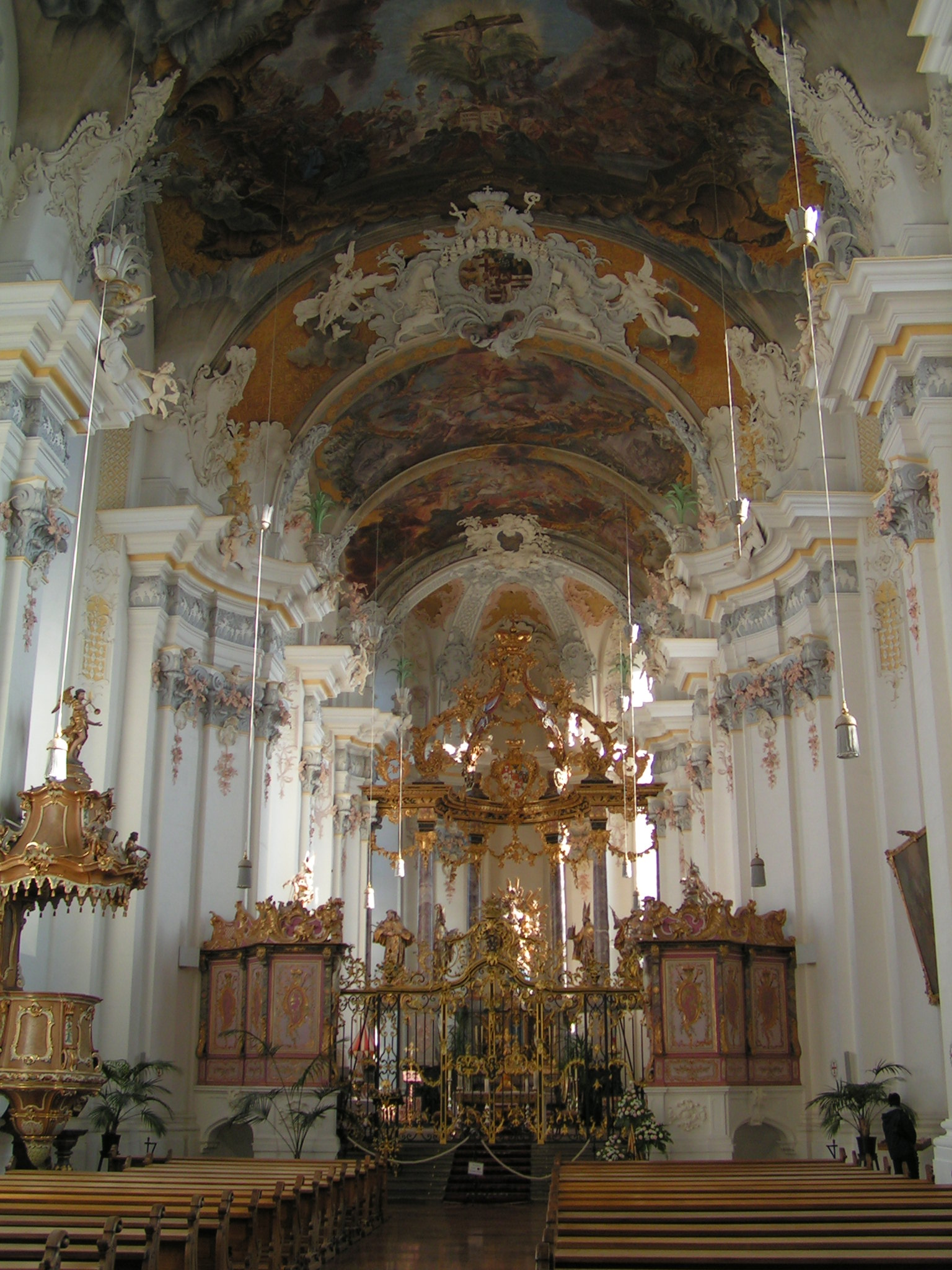 St. Paulin, Trier, Germany